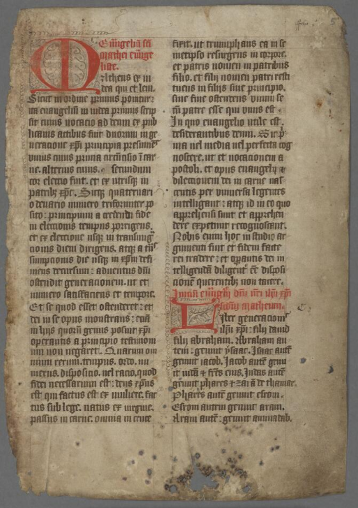 f.5 of Liber Landavensis. The volume contains the Gospel of St Matthew and a compilation, [c. 1120 - c. 1134], of copies of charters, saints' Lives and other records and literary material relating to the medieval diocese of Llandaf.